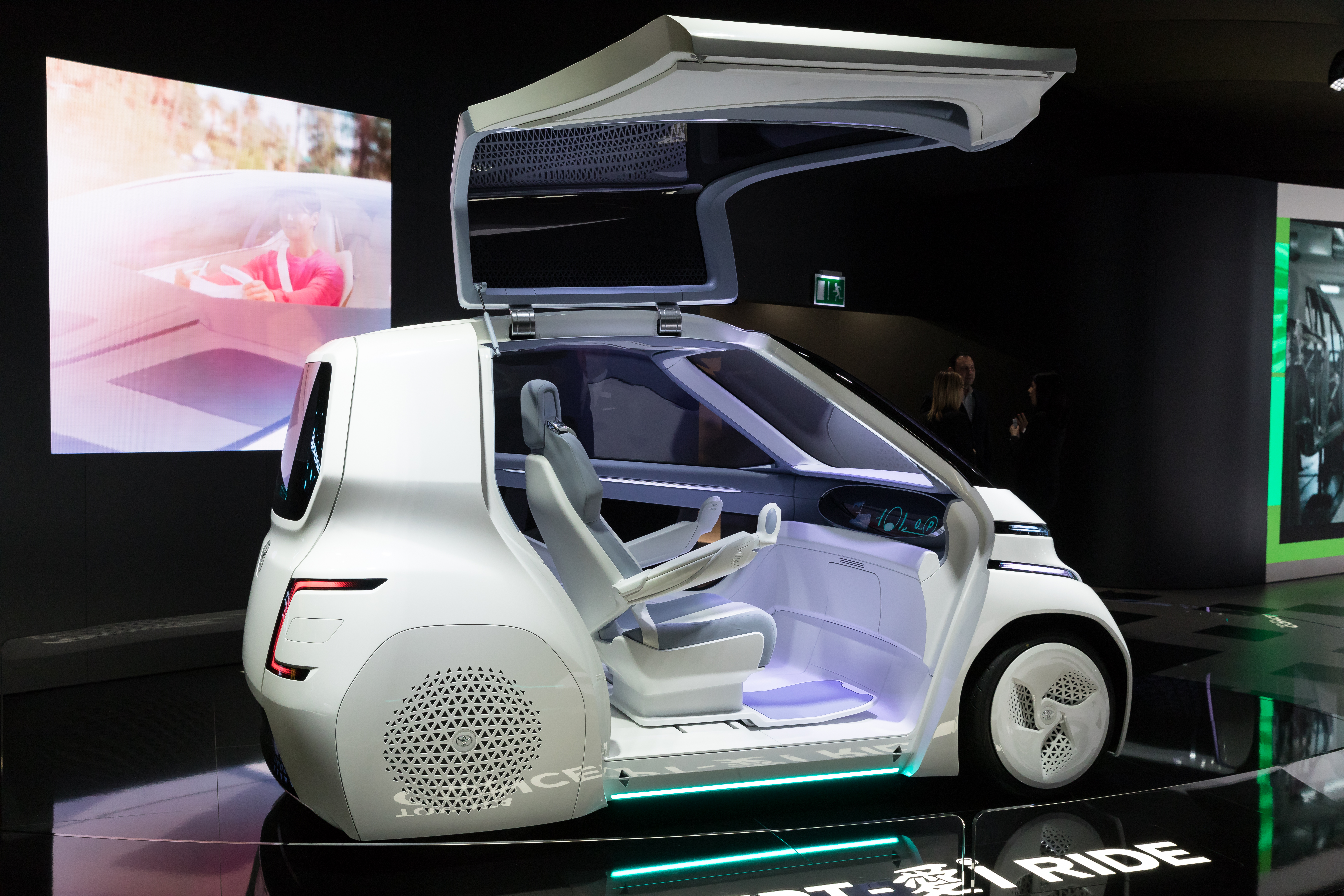 Toyota Concept-愛i Ride at Geneva International Motor Show 2018